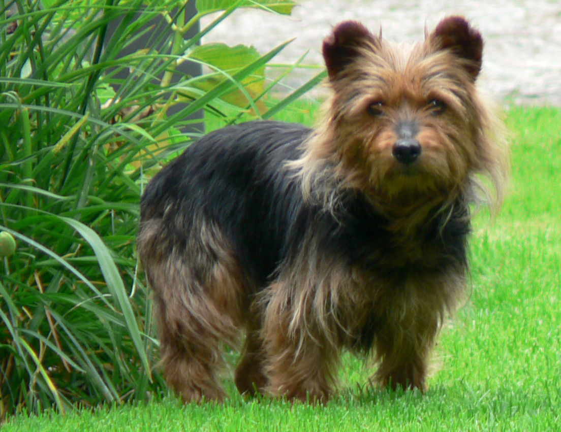 Australian Terrier Melly, three years old